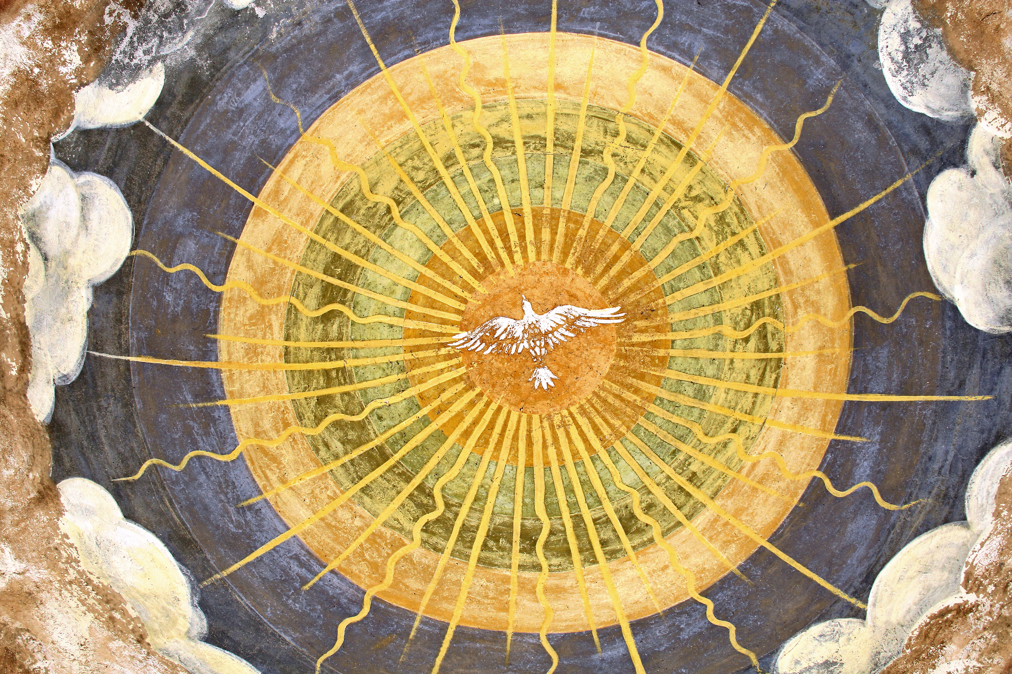 Zica is an early 13th-century Serb Orthodox monastery near Kraljevo, Serbia. The monastery, together with the Church of the Holy Dormition, was built by the first King of Serbia, Stefan the First-Crowned and the first Head of the Serbian Church, Saint Sava.